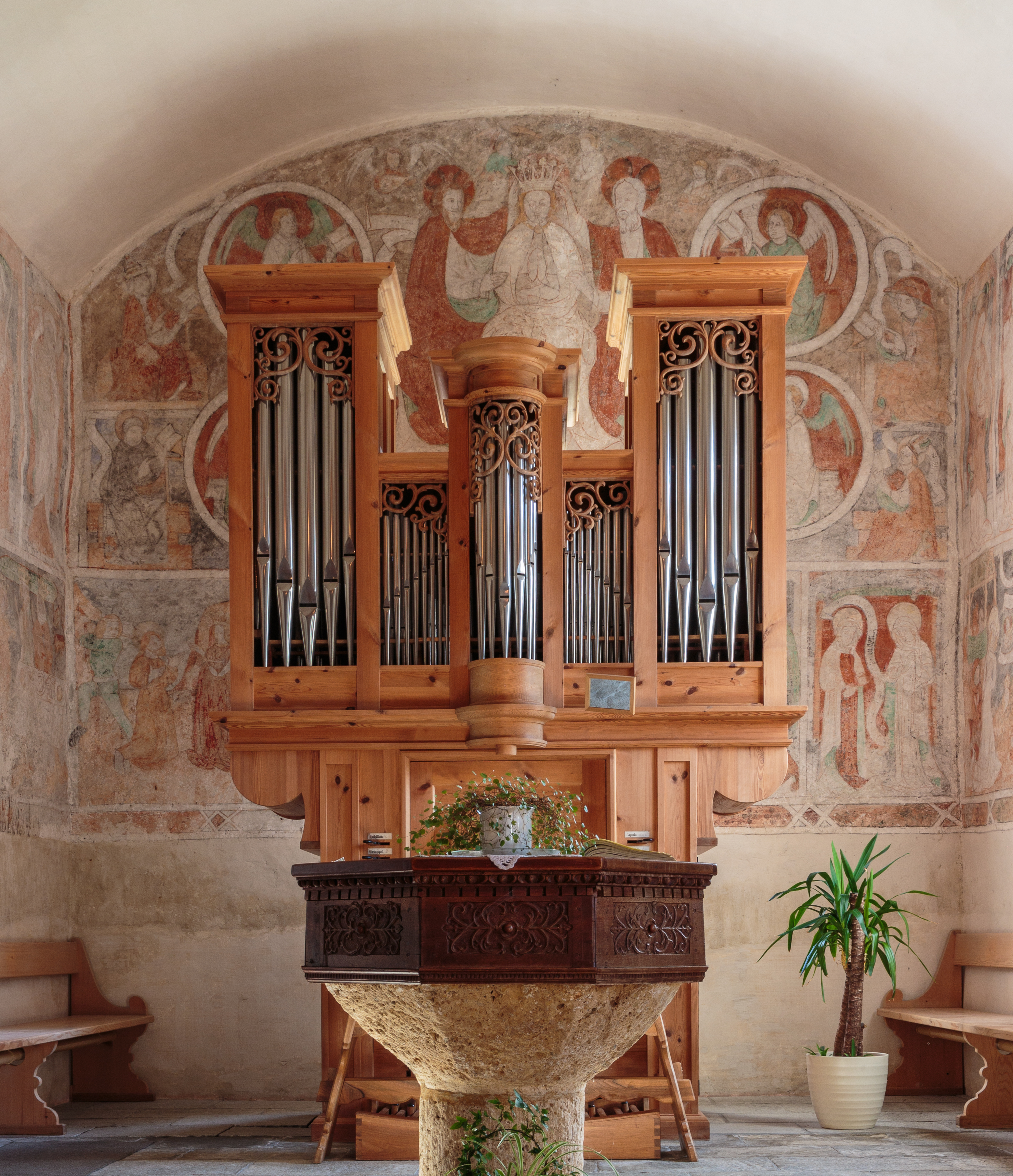 Waltensburg/Vuorz, Switzerland. reformed church with beautiful frescoes. (Church organ).